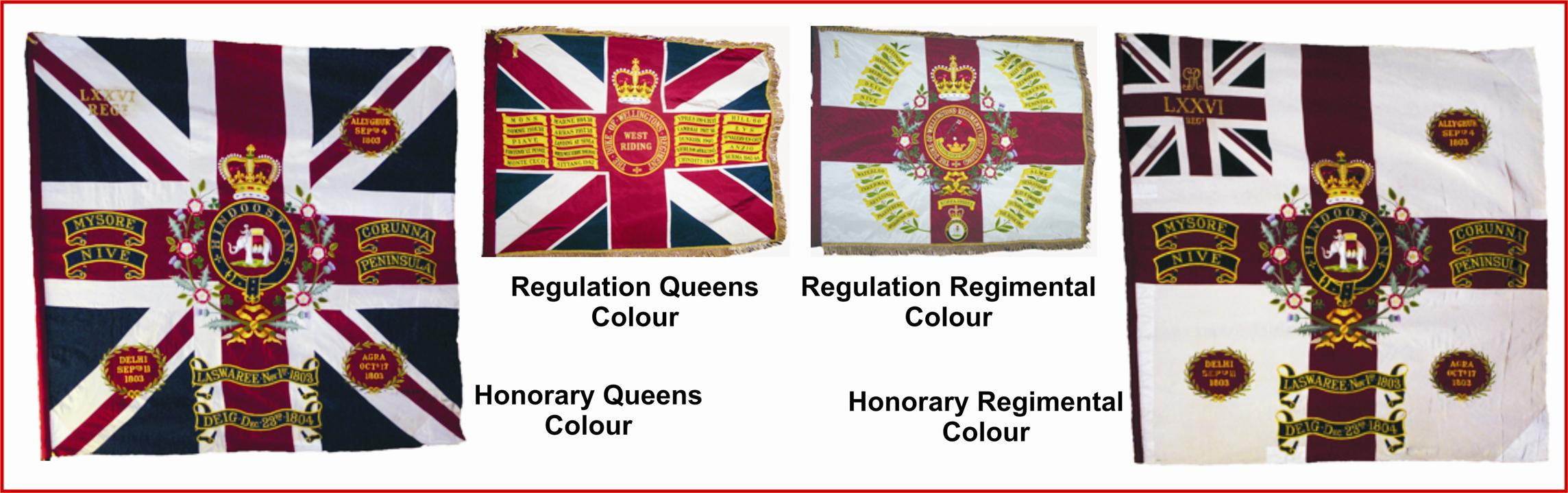 Group of images showing the Colours of the Duke of Wellington's Regiment (West Riding)